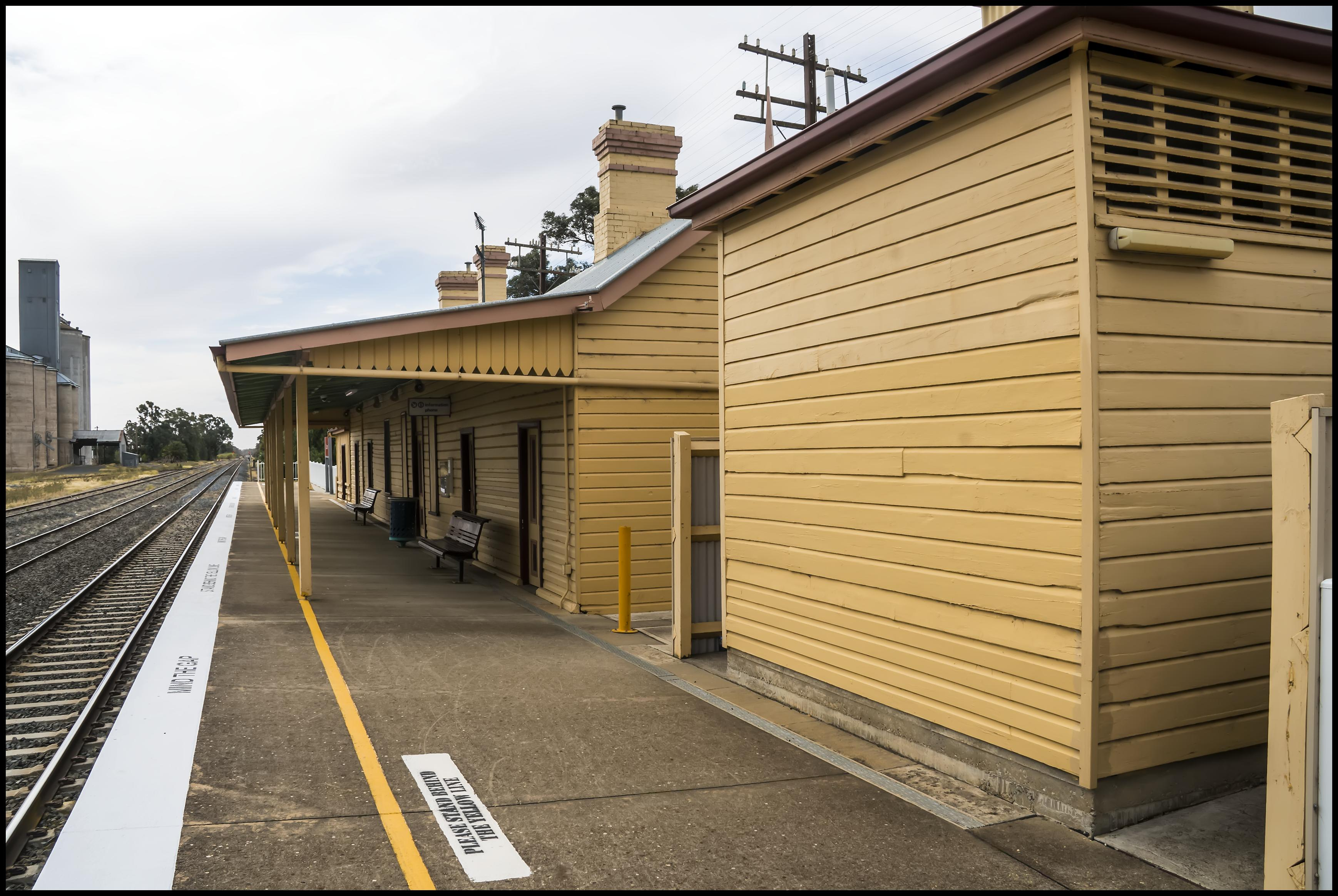 Culcairn Railway Station